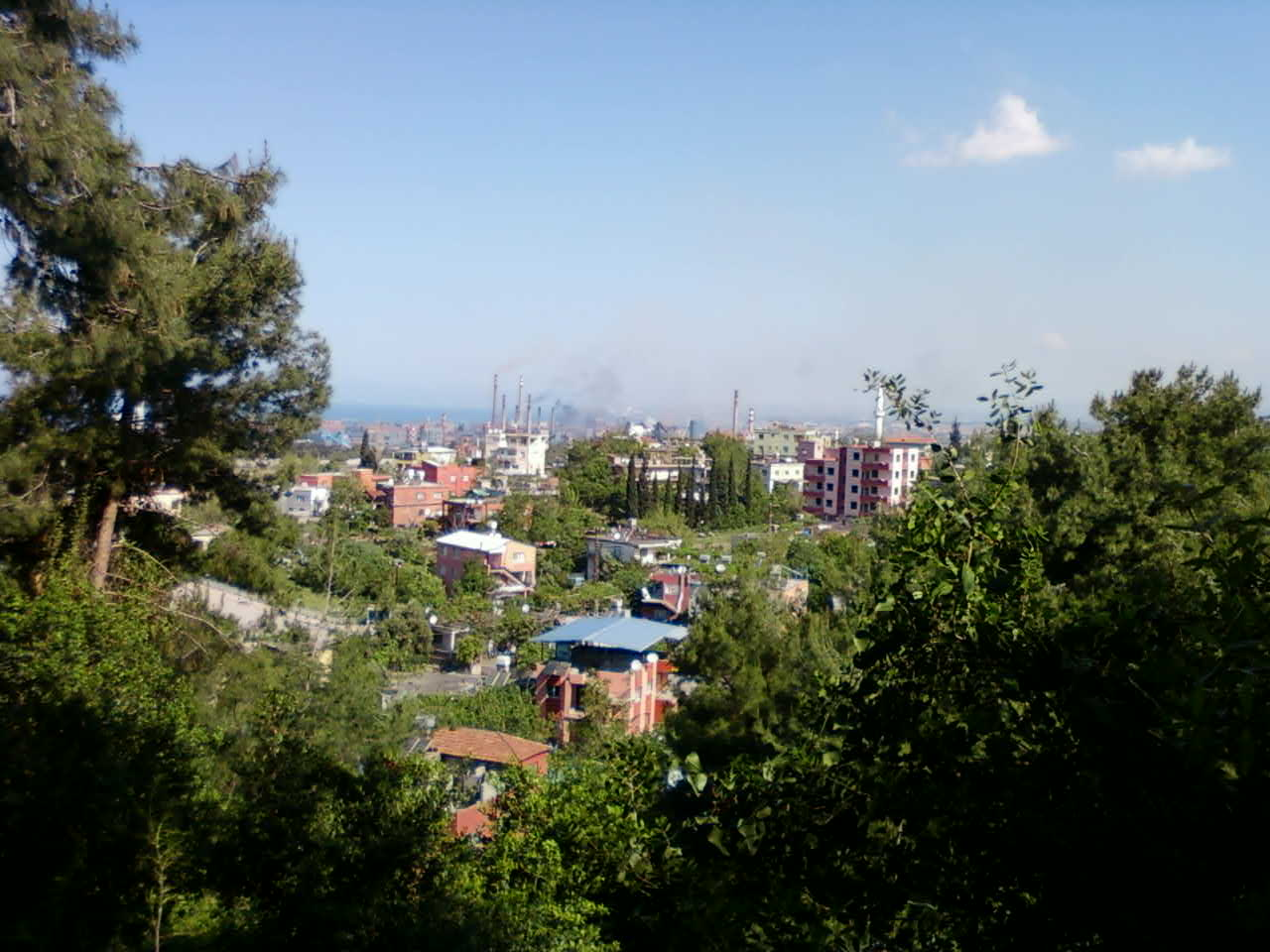 A view from Azganlık, İskenderun